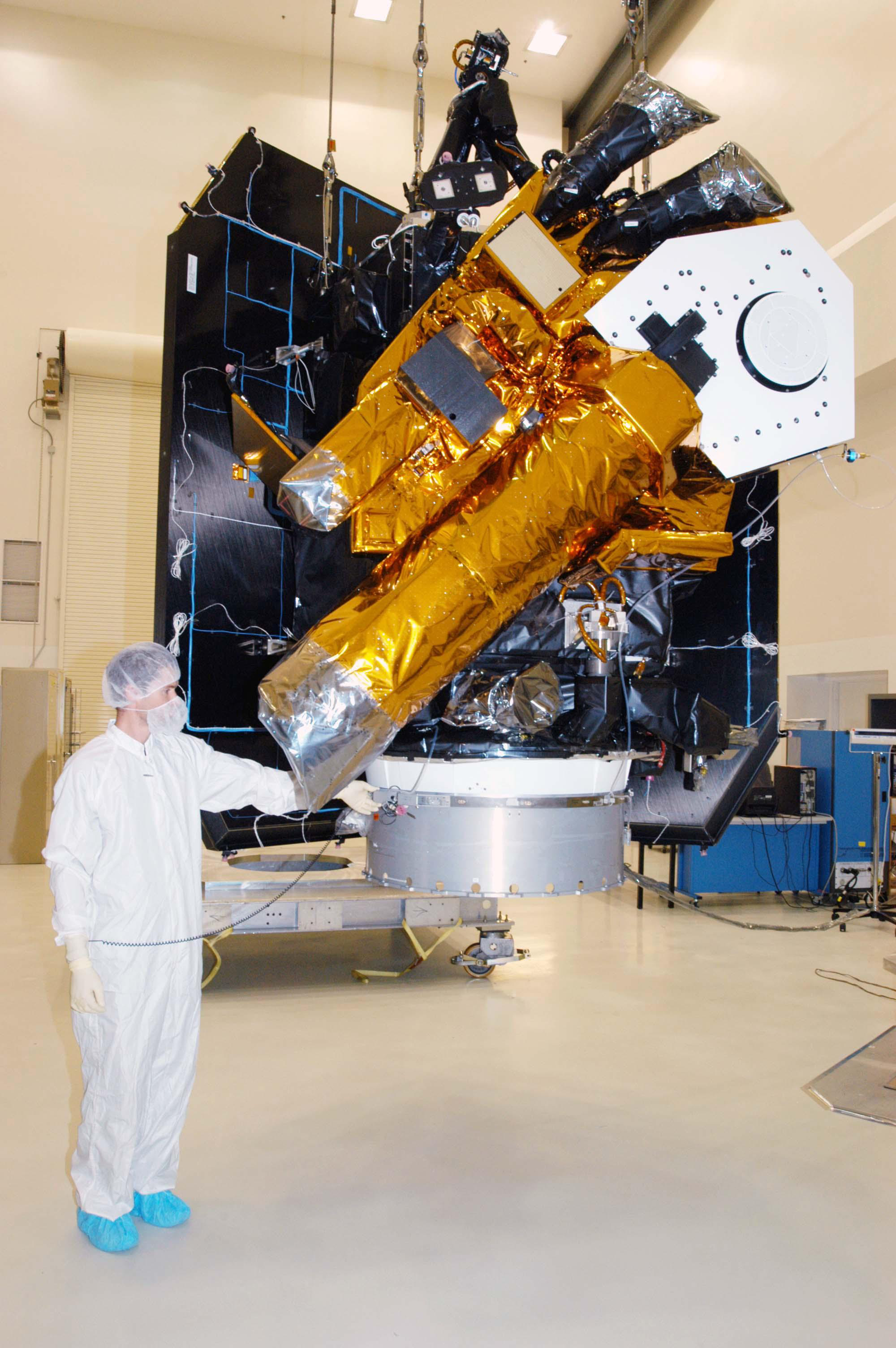 The Deep Impact spacecraft hovers in the clean room at Astrotech. The impactor spacecraft is surrounded with a protective structure.